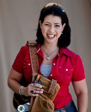 Carmen De La Paz portrait